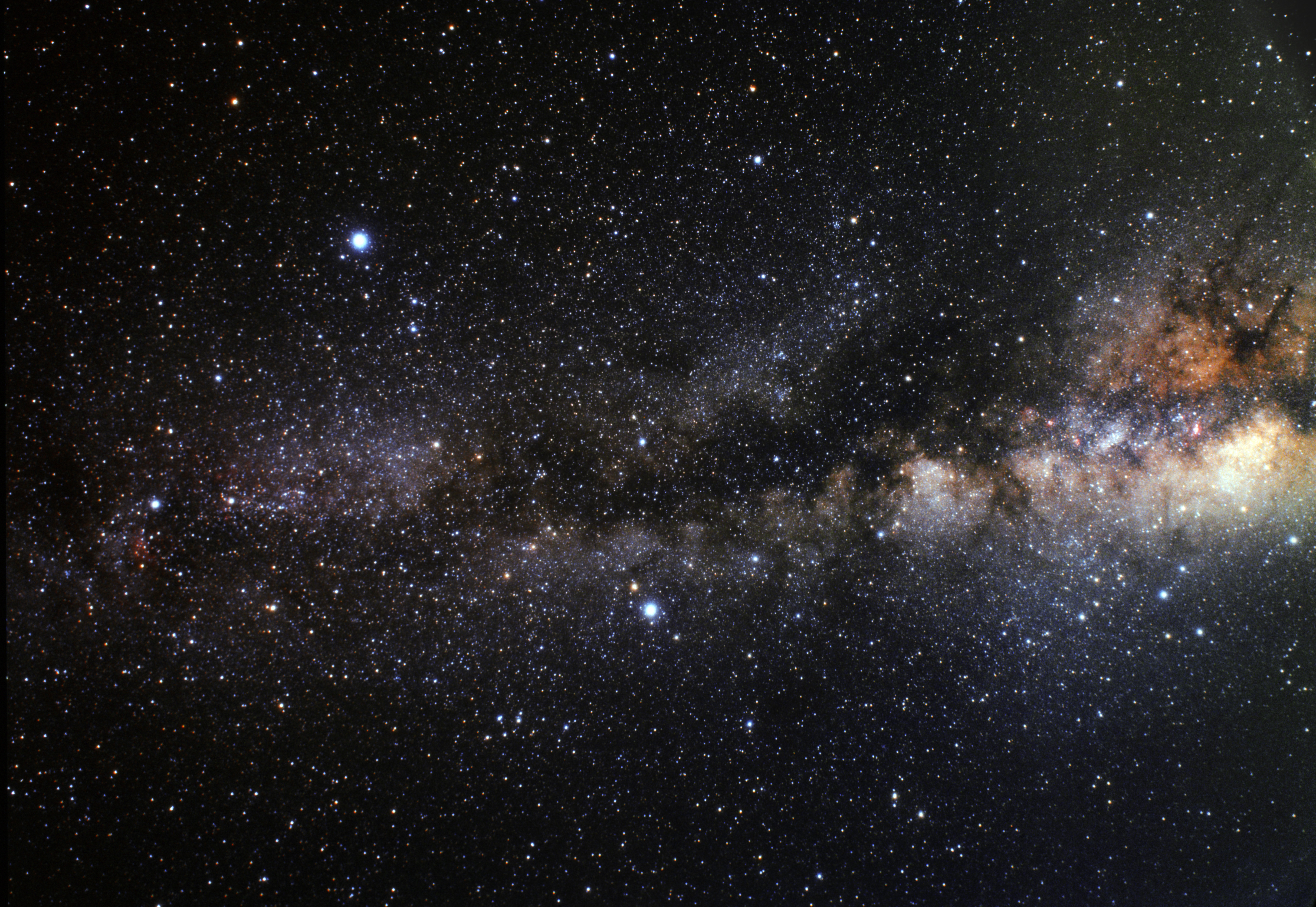 A wide field image of the region of sky in which HD 189733b is located. In this image we can see the asterism of the "Summer Triangle" a giant triangle in the sky composed of the three bright stars Vega (top left), Altair (lower middle) and Deneb (far left). HD 189733b is orbiting a star very close to the centre of the triangle.